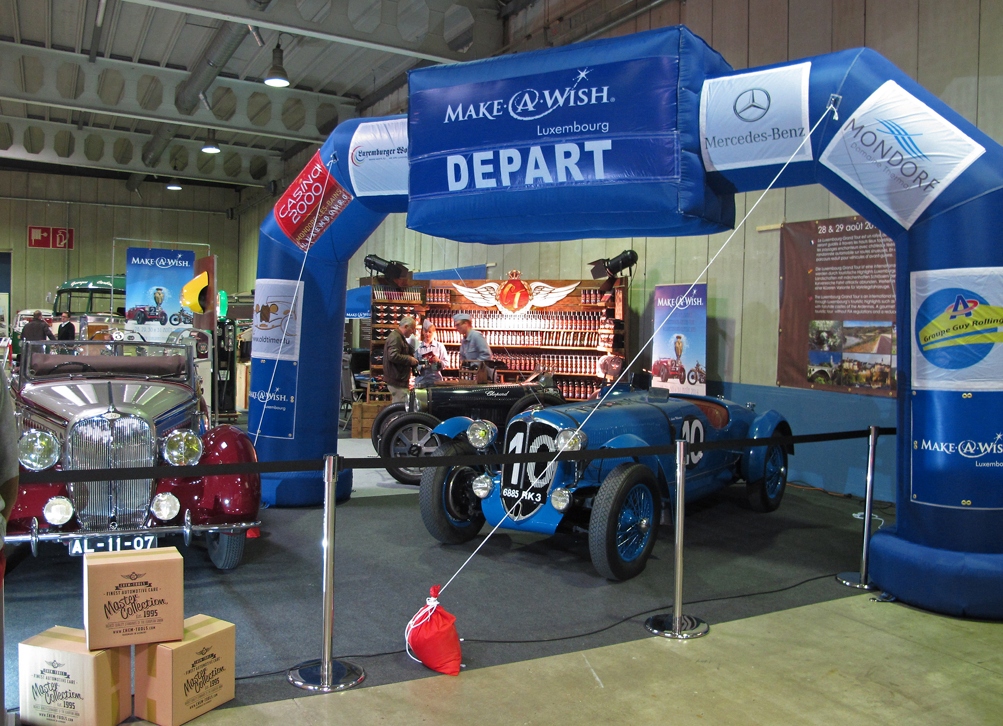 Presentatioun of the "Make a Wish" - Classic Days in Mondorf on the Autojumble 2014